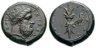 Sicily, Syracuse. Time of Dion. 357-354 BC. Æ Hemidrachm (14.29 g). ΖΕΥΣ ΕΛ-ΕΥ-ΘΕΡΙΟΣ, laureate head of Zeus Eleutherios right ΣΥΡΑΚ- ΟΣΙΩΝ, thunderbolt; eagle right.